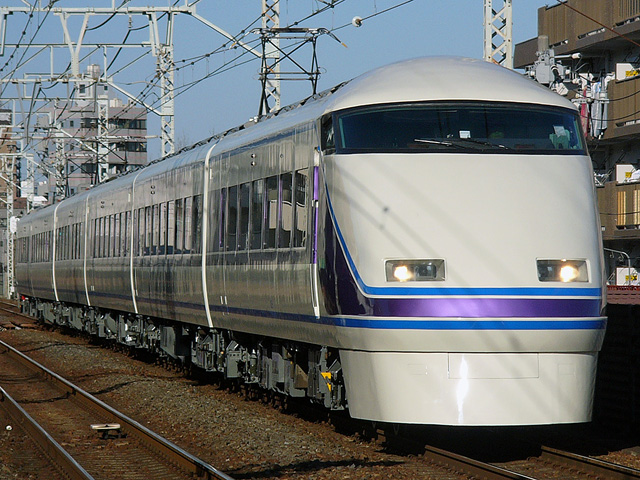 Tobu 100 series "Spacia" set 105 in new "Miyabi" purple livery approaching Gotanno Station on the Tobu Skytree Line